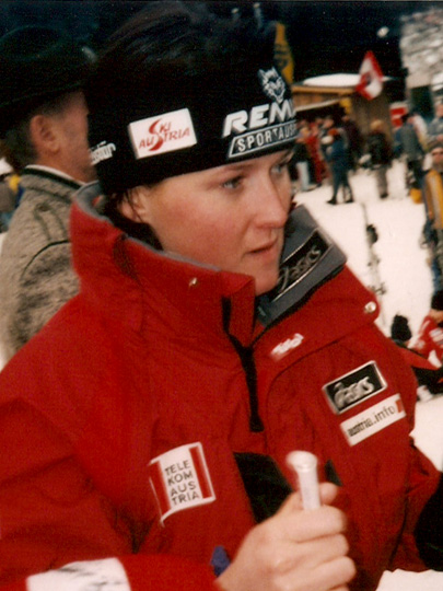 Austrian alpine skier Alexandra Meissnitzer after the giant slalom in Semmering (Austria) on December 28th, 2002.